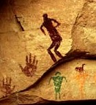 Pictograph, southeastern Utah, attributed to Basketmaker period, Puebloan archaeological culture.